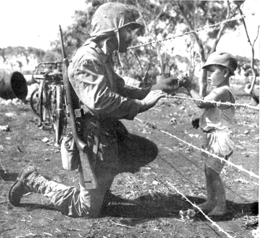 US Marine and child in an internment camp, Tinian.